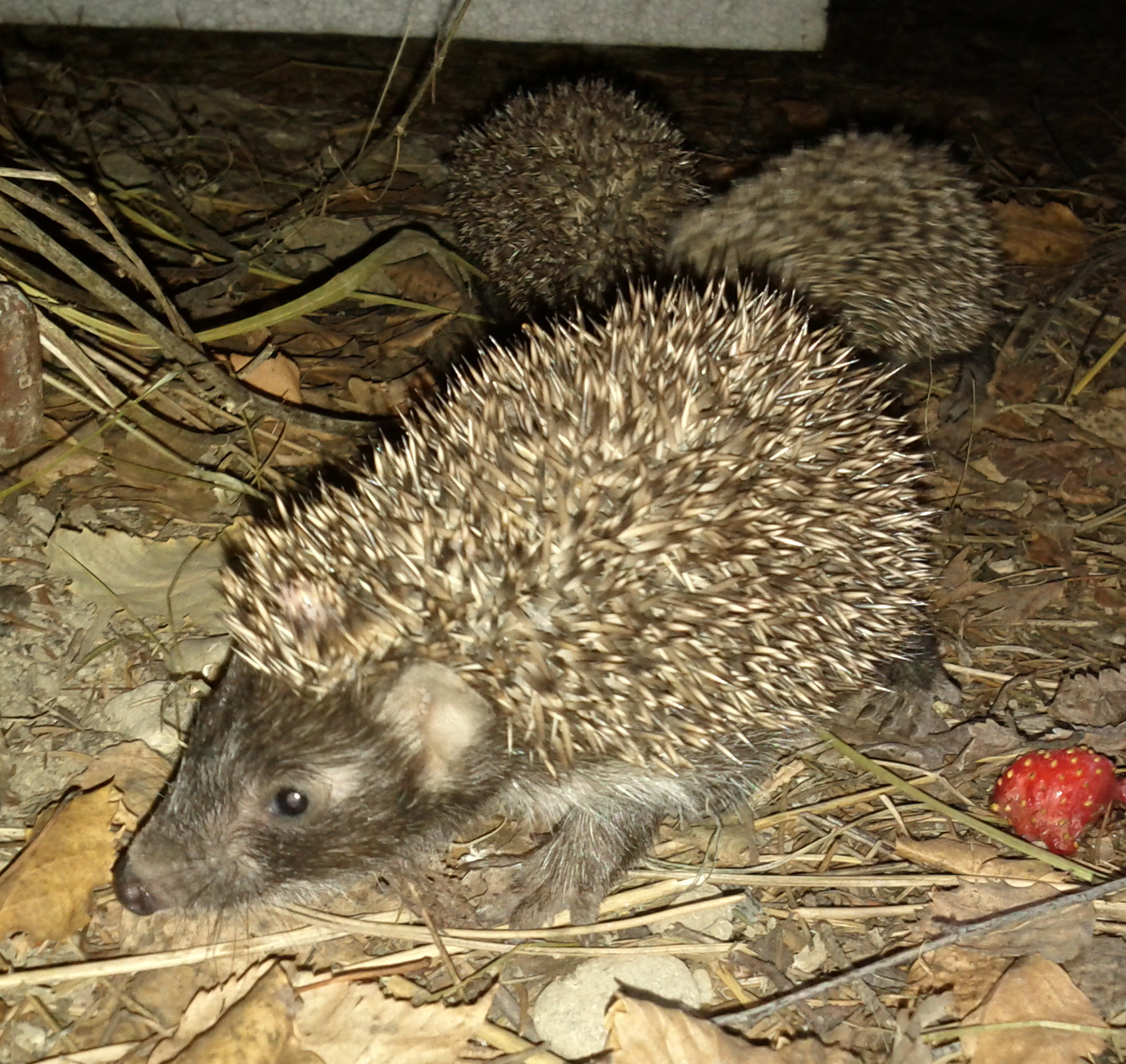 Erinaceus roumanicus, pups, Lower Austria